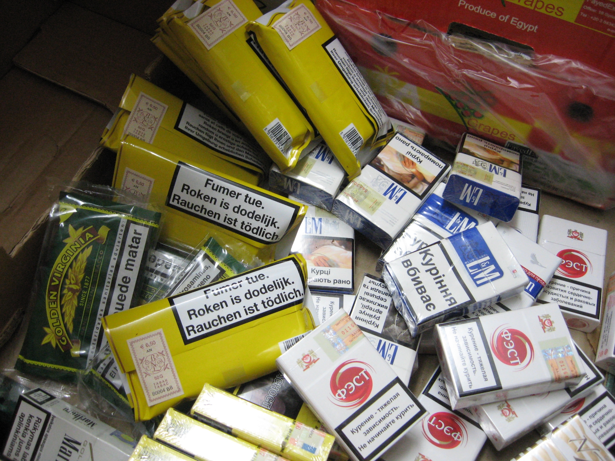 Smuggled tobacco seized by HMRC in Peterborough